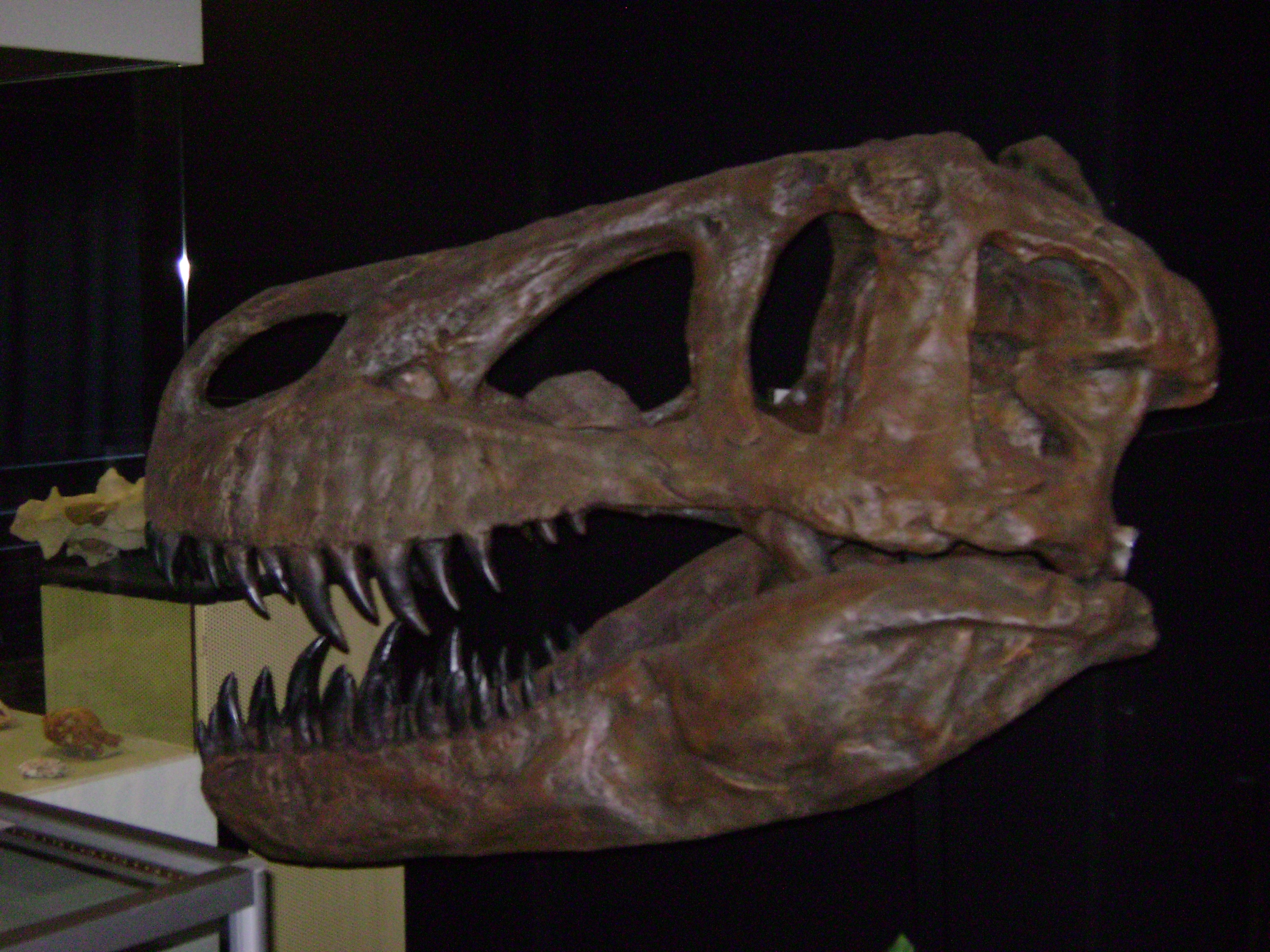 Skull reconstruction of Torvosaurus gurneyi